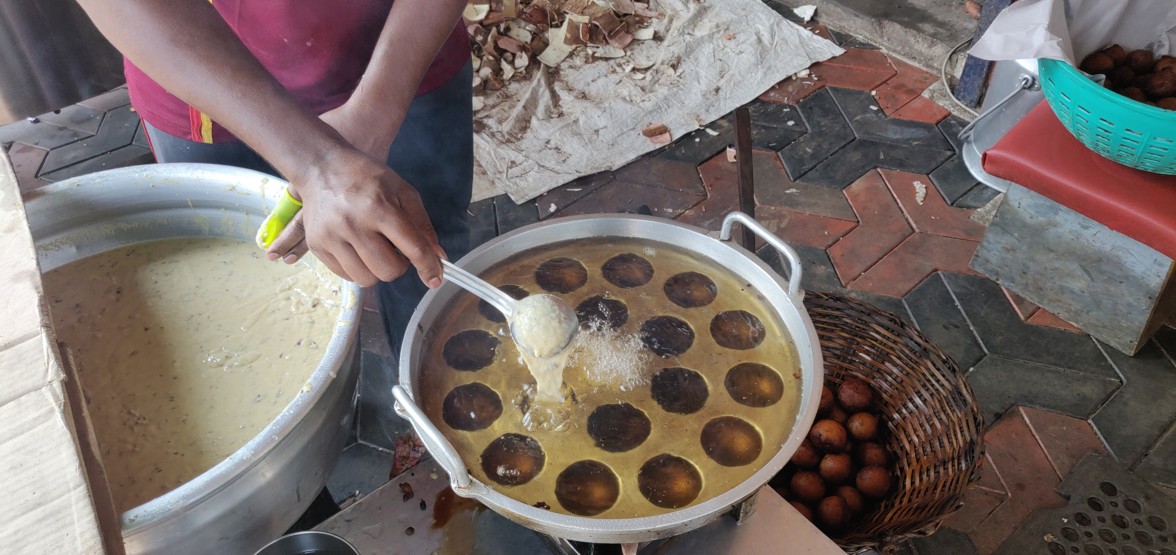 Unniyappam Making, pouring the rice cream into boiling palm oil